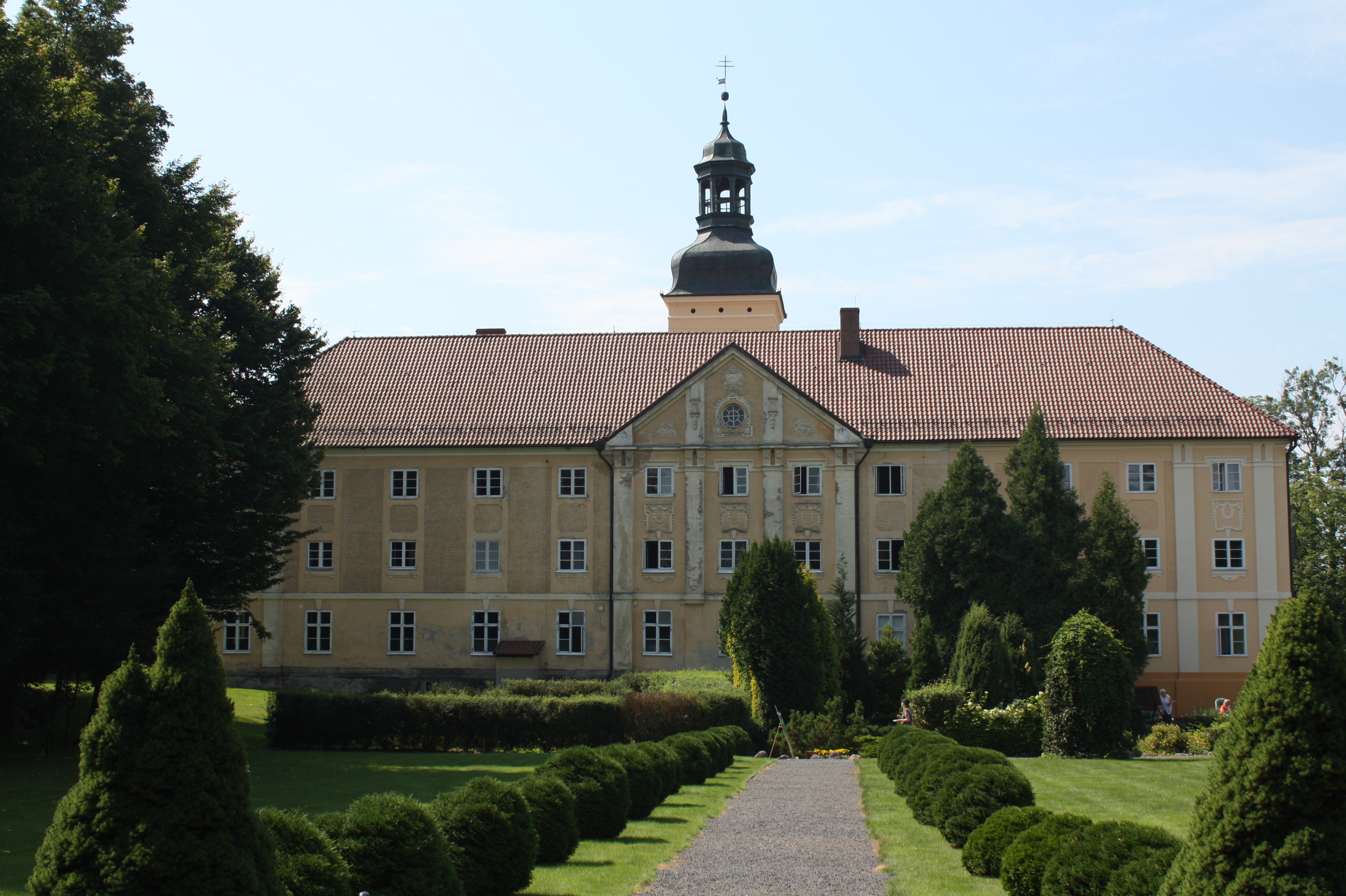 This photo of Warmian-Masurian Voivodeship was taken during Wikiexpedition 2012 set up by Wikimedia Polska Association. You can see all photographs in category Wikiekspedycja 2012. The making of this document was supported by Wikimedia Polska.